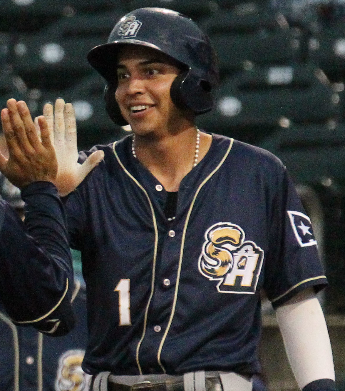 Trent Grisham and Mauricio Dubon of the San Antonio Missions high five during a 2019 game at Werner Park in Omaha